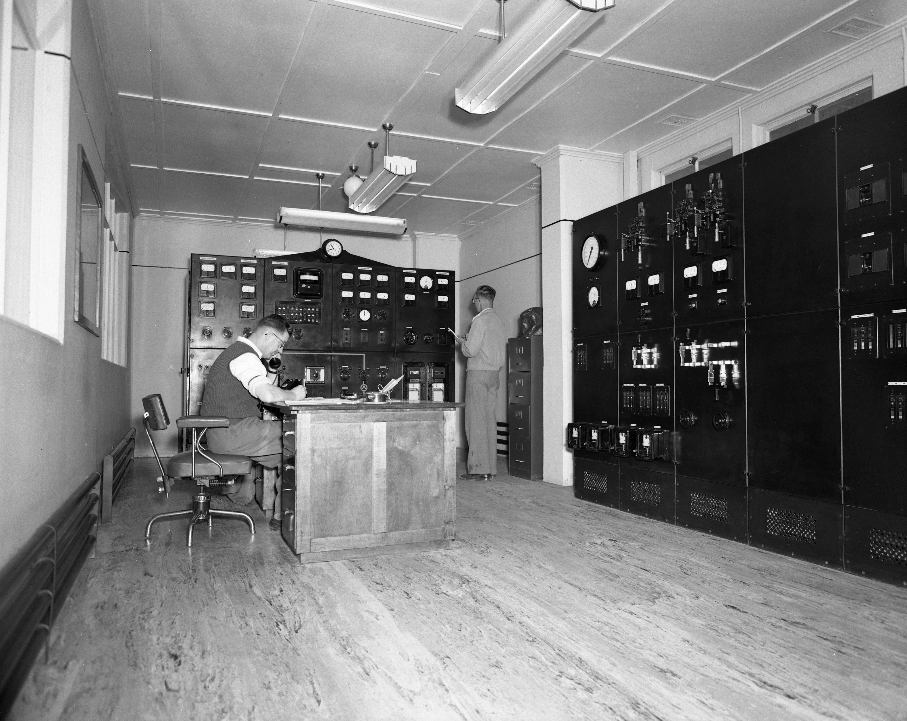 Tasmanian Archive and Heritage Office: AB713/1/2085 Images from the TAHO collection that are part of The Commons have ‘no known copyright restrictions’, which means TAHO is unaware of any current copyright restrictions on these works. This can be because the term of copyright for these works may have expired or that the copyright was held and waived by TAHO. The material may be freely used provided TAHO is acknowledged; however TAHO does not endorse any inappropriate or derogatory use.